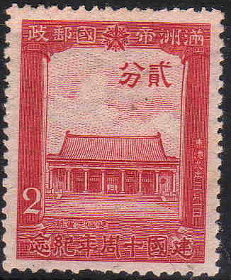 10th Anniv. of Manchokuo 2fen stamp